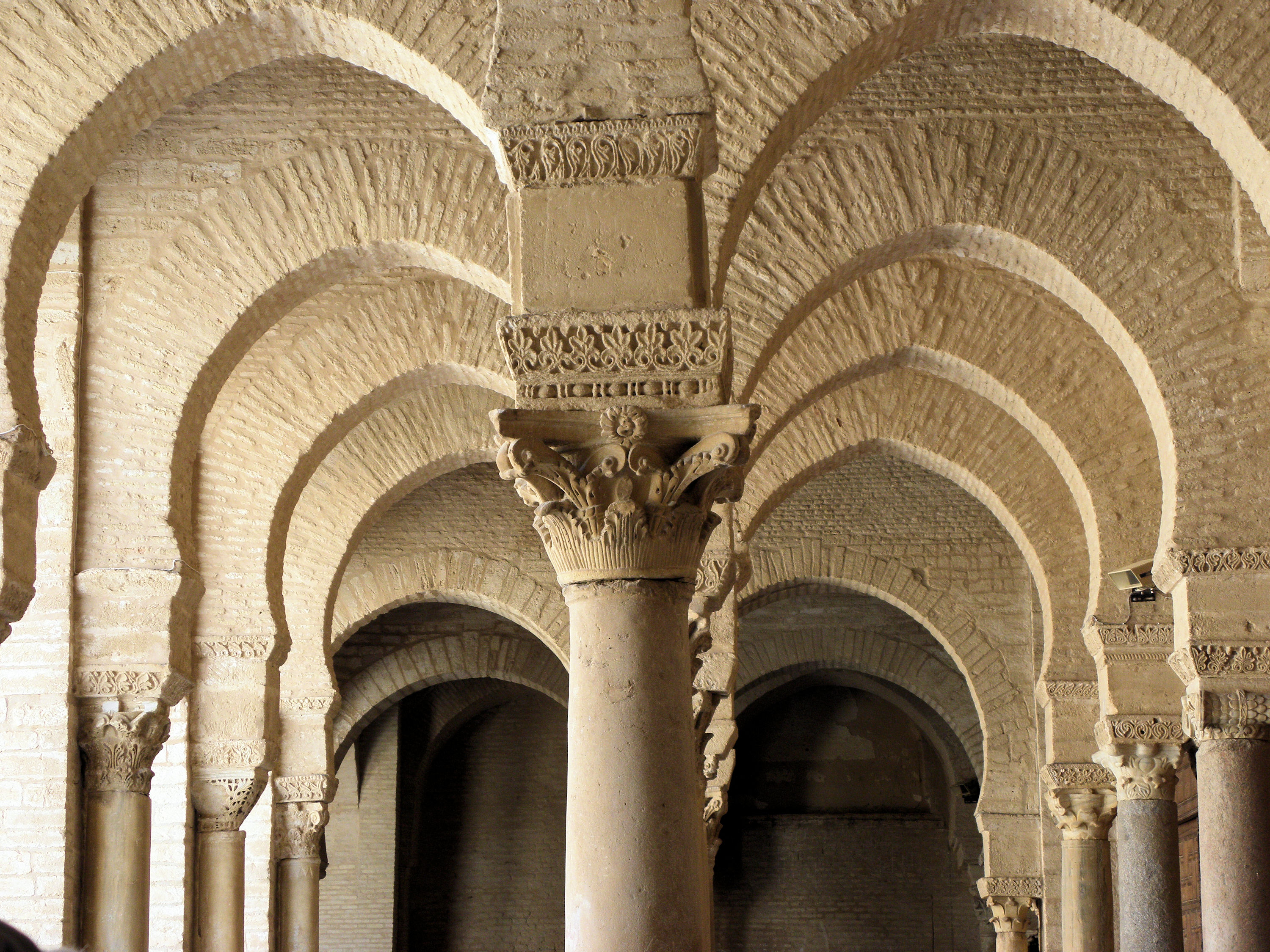 Arches and columns in the Great Mosque (Jemaa Sidi Uqba), Kairouan, Tunisia.